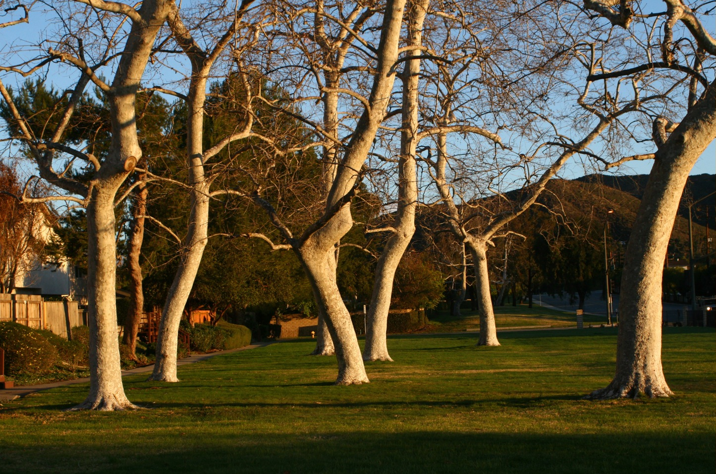 Trees in Casa Conejo, CA. "Ents in the Magic Morning Sun"